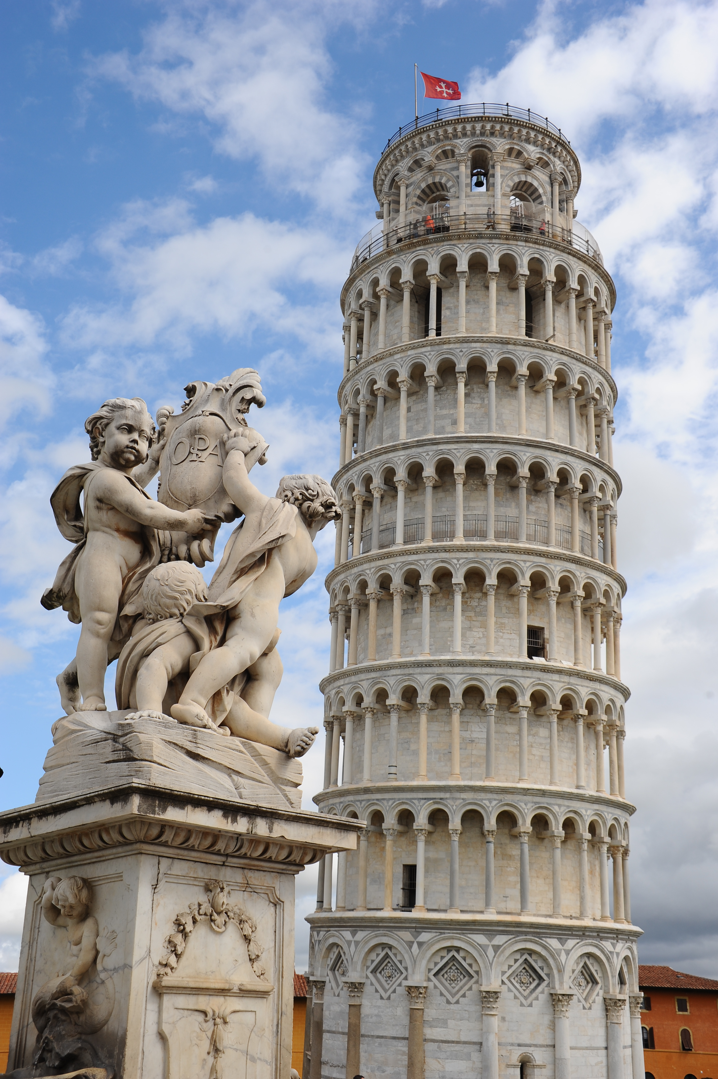 Putti Fountain and the Leaning Tower of Pisa (background), Piazza dei Miracoli ("Square of Miracles"). Pisa, Tuscany, Central Italy.